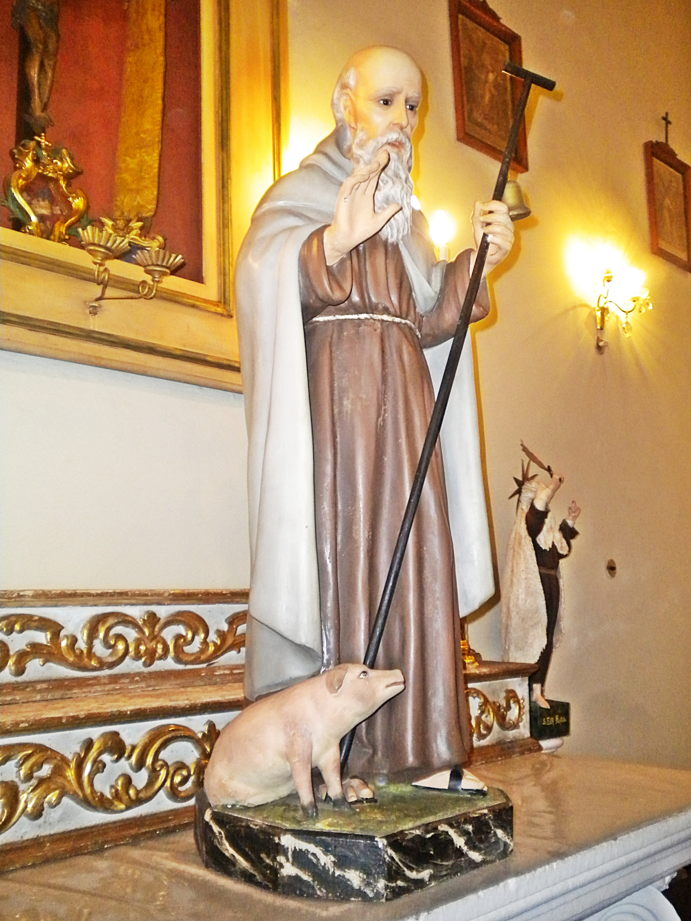 Sant'Antonio Abate with animals(protector of the animals)